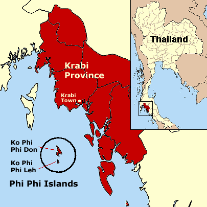 Location of the Phi Phi islands in Thailand.